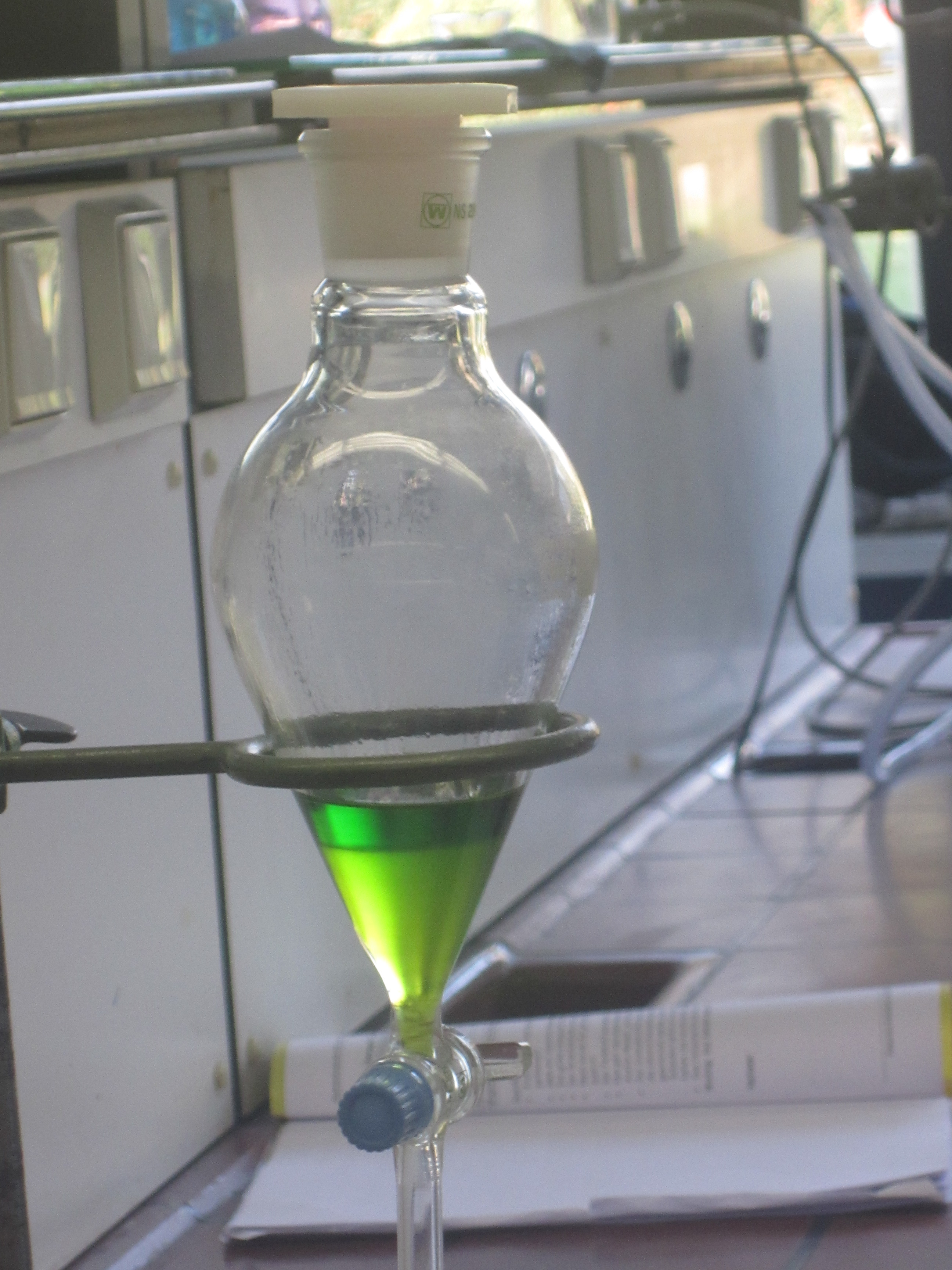 Extraction of Chlorophyll out of grass